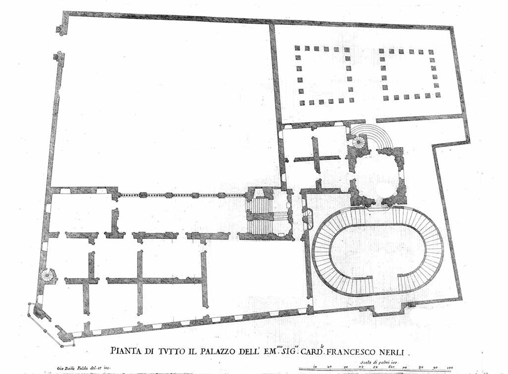 Plan of Palazzo Mattei Albani Del Drago by Giovanni Battista Falda (Palazzi di Roma de Piv. Celebri Architetti - Libro II).